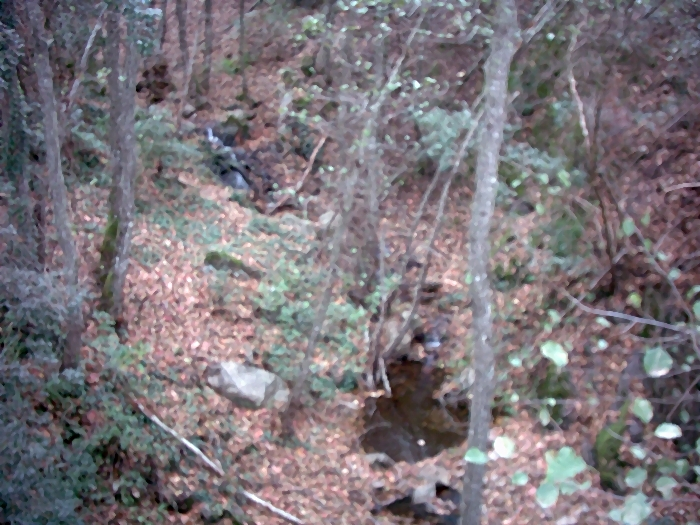 A work release by Francisco Javier Martin Lopez, in "Garganta de la Fuente de San Lorenzo" at Sierra Madrona, Ciudad Real, Spain 2005, November 27. A free donation to Wikipedia.